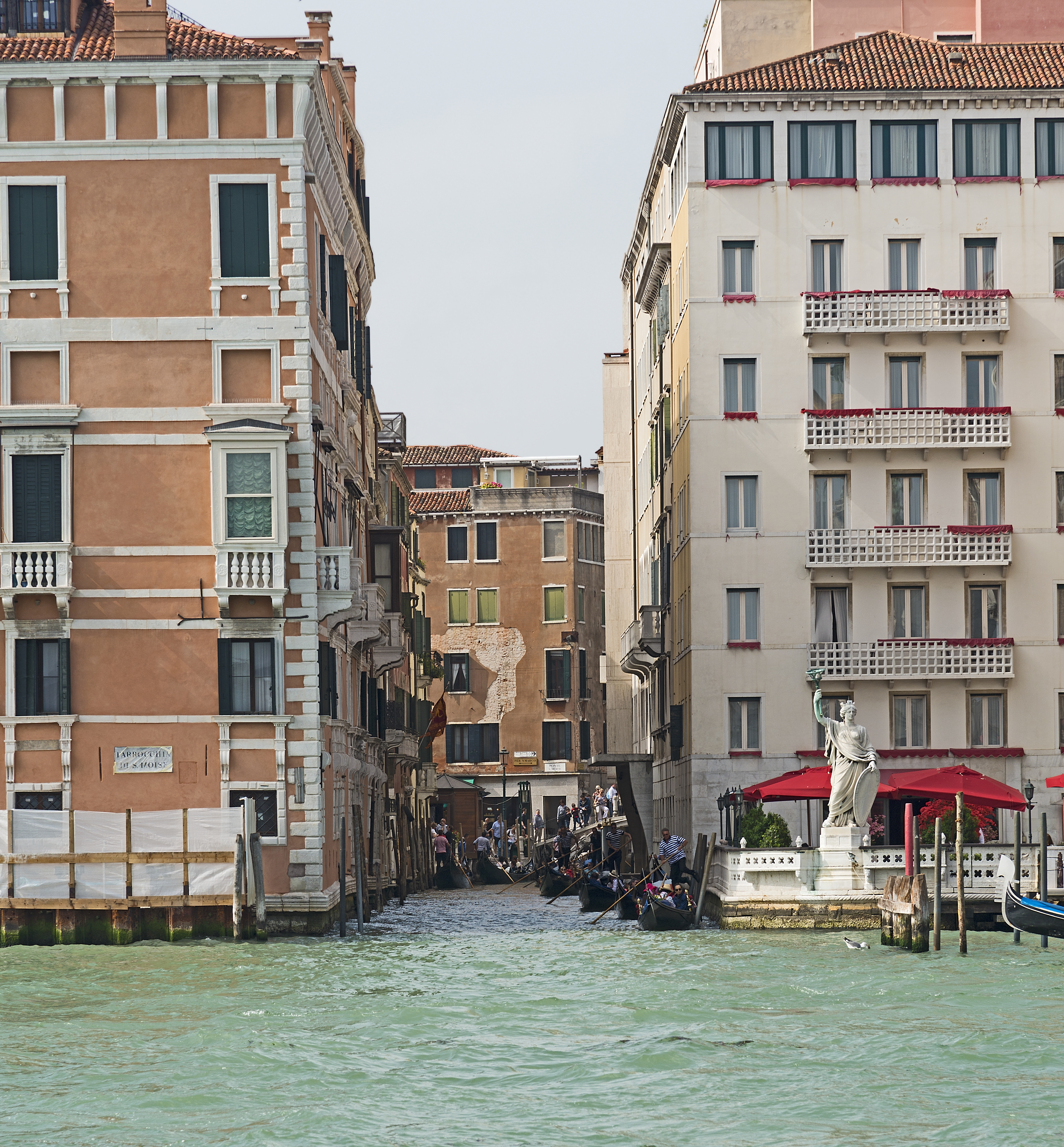 Rio di San Moise Venice View from the Grand Canal.